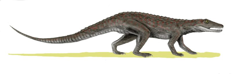 Erpetosuchus granti, a archosaur from the Late Triassic of Europe, pencil drawing